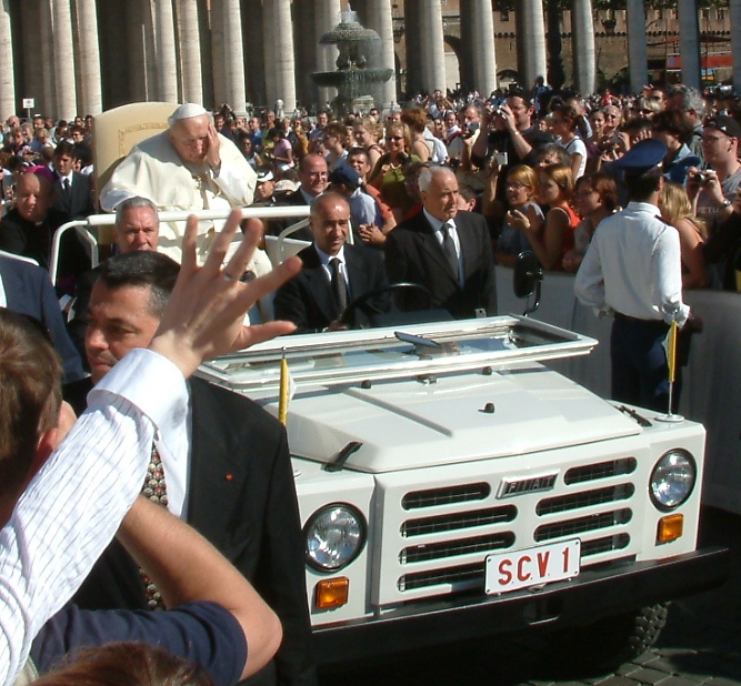 John Paul II on pontifical audience in Vatican. On the left of the popemobile Camillo Cibin, former Inspector General of the Vatican Gendarmerie